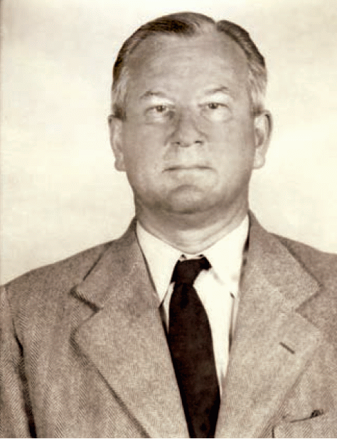 Karel Rameš (1911 - 1981) was the Protectorate imprisoned in Pankrác prison in Prague; he organized illegal exchange of messages between the prison cells and even out of prison; after the II WW, he published a book (his prison diary), as a historical witness to the life of political prisoners on death row to await execution by guillotine in Pankrac prison. In the fifties of the twentieth century, was Karel Rameš convicted by the communist regime. He was arrested and imprisoned for alleged treason. He died in obscurity.